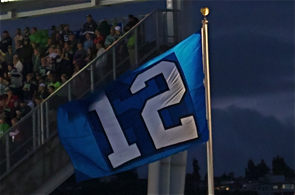 This photo was taken of a giant #12 flag during a Seattle Seahawks game. It was the game that had a weather delay.